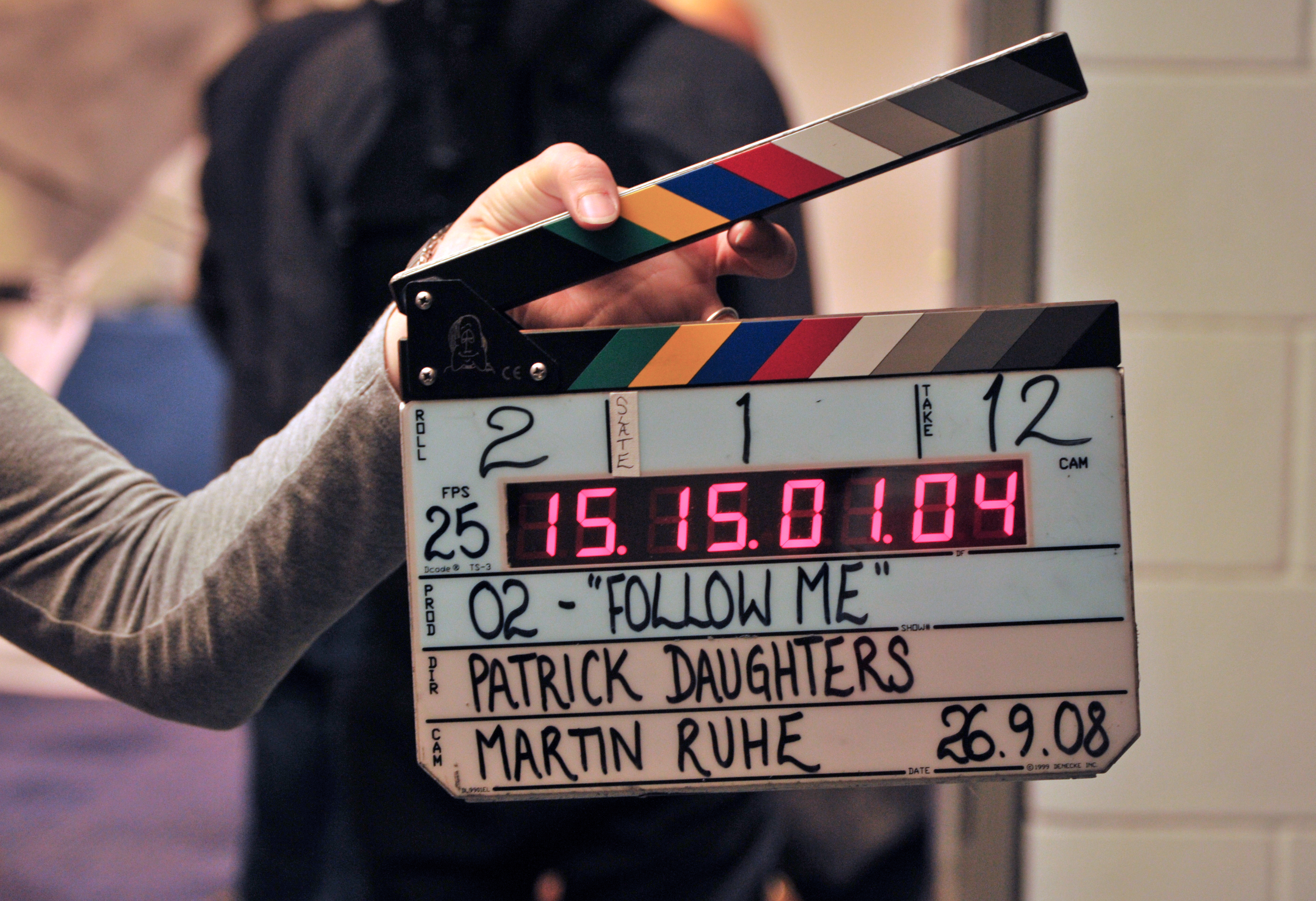 A Denecke TS-3 clapperboard in use during the shooting of a film for O2.